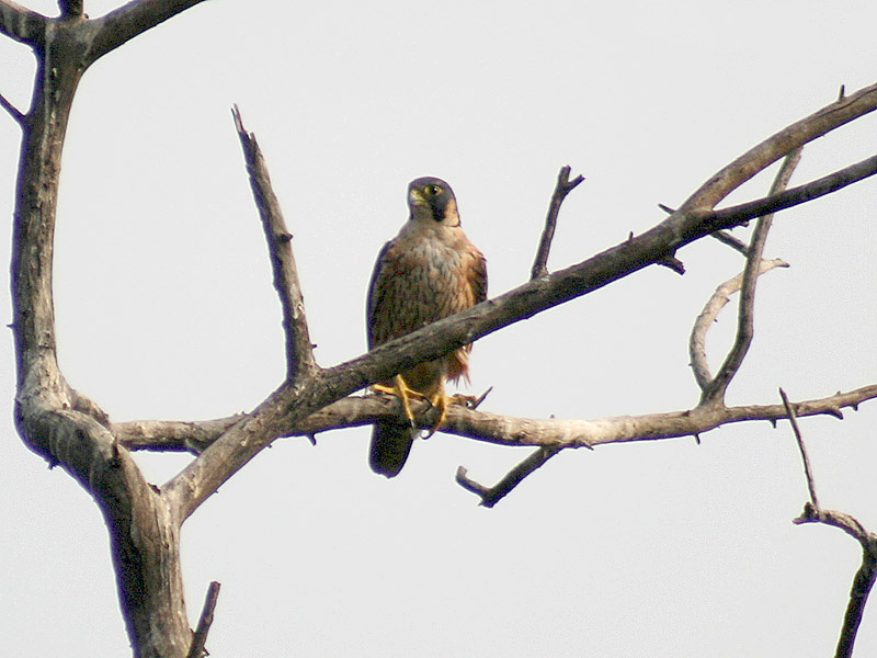 Peregrine Falcon Falco peregrinus at Bharatpur, Rajasthan, India.